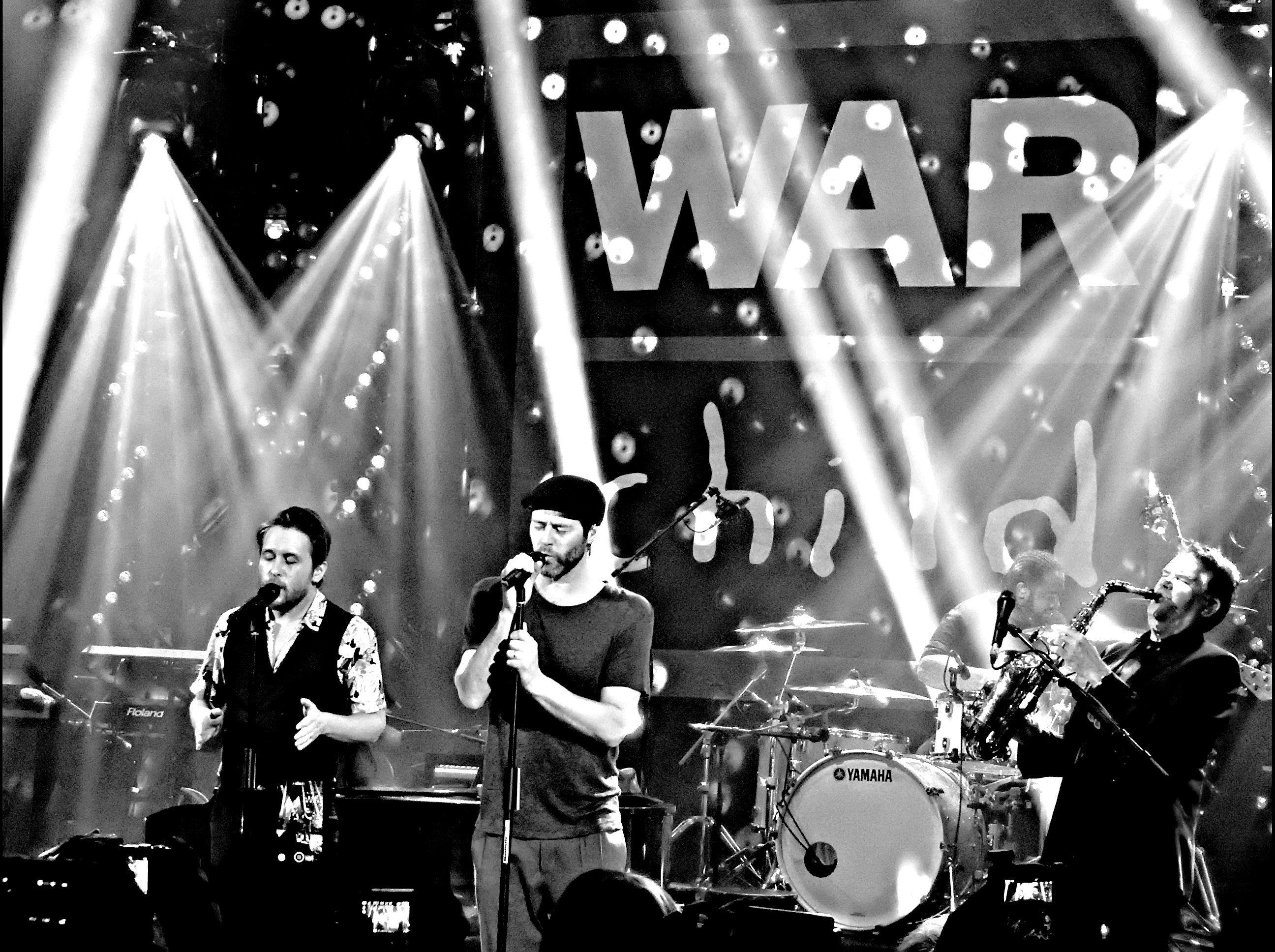 Take That, Shepherds Bush Empire, London